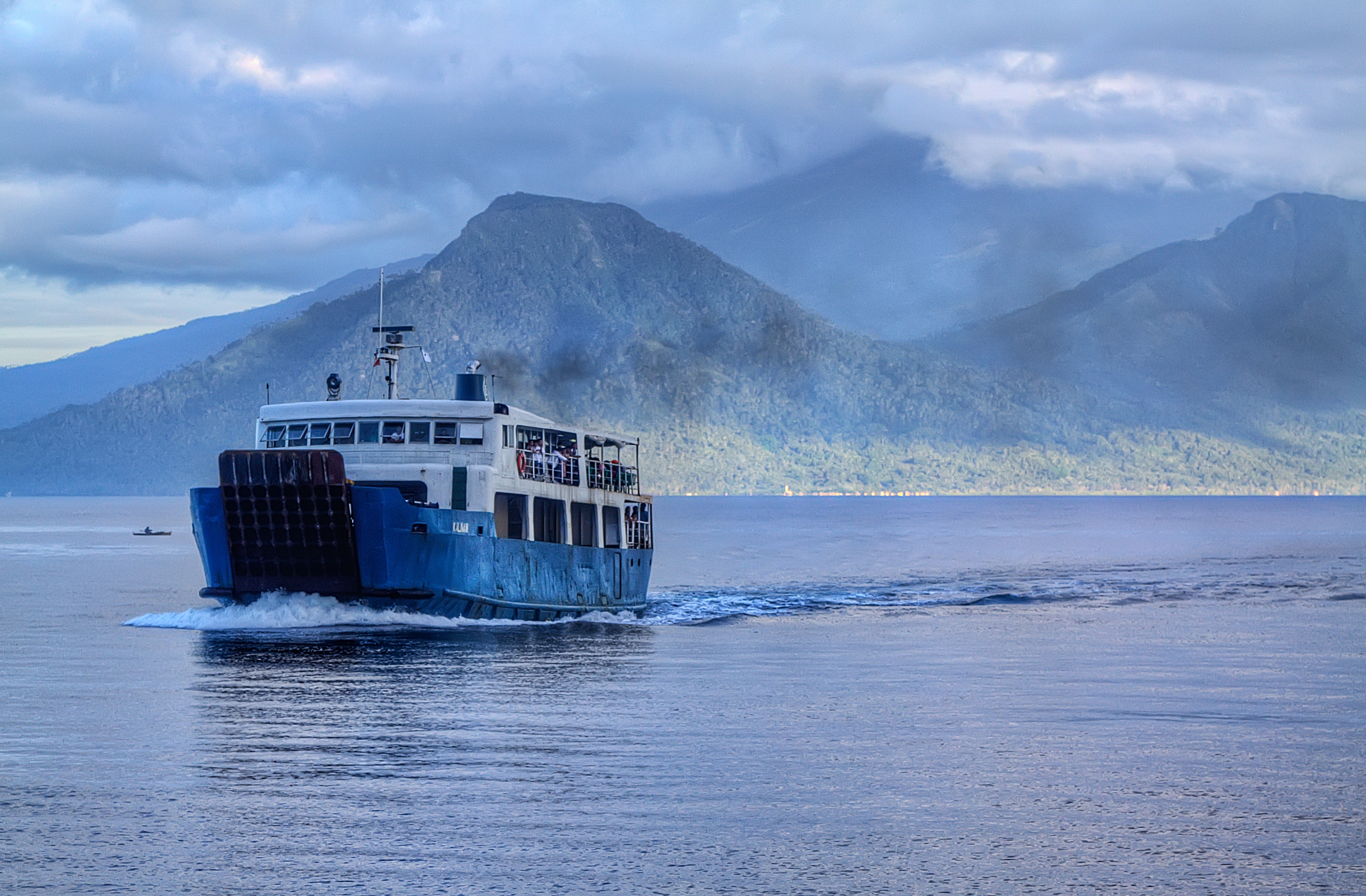 View towards Camiguin Island, Philippines. In the foreground a ferry returning to mainland Mindanao